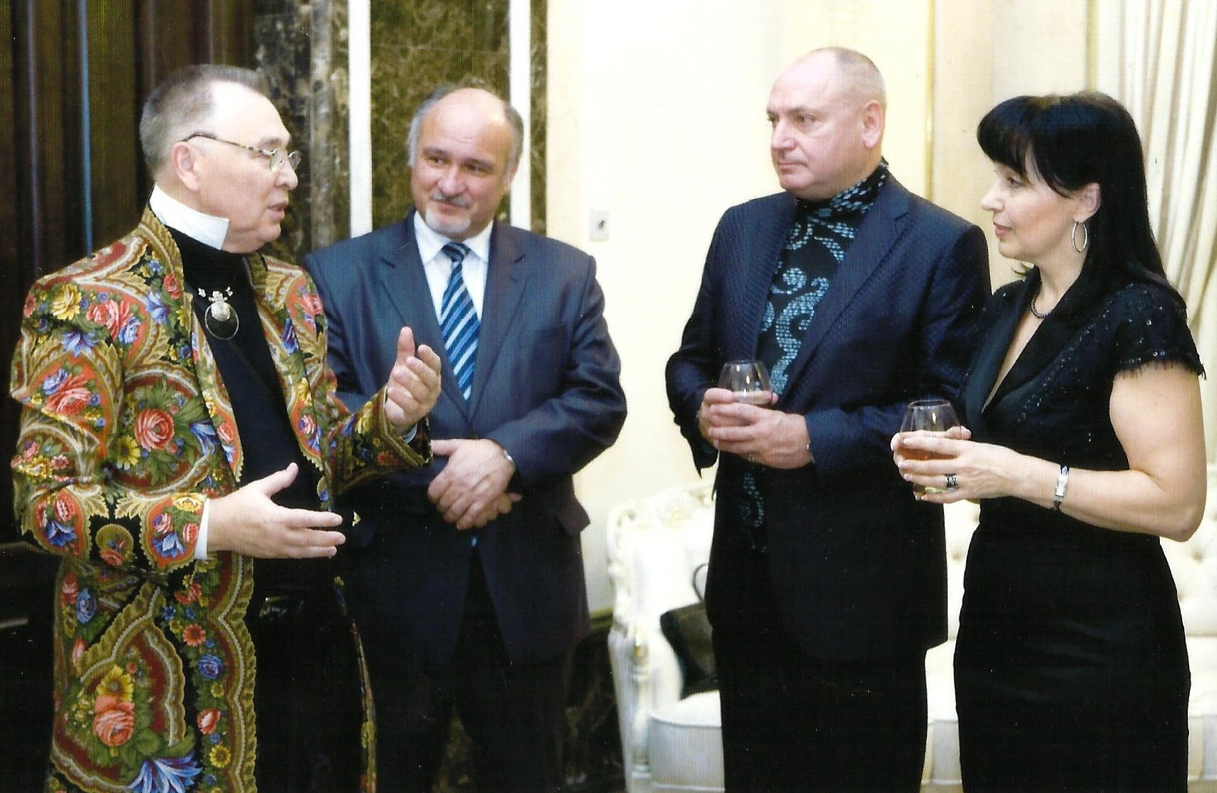 Slava Zaitsev and Sasha Varlamov in National Opera and Ballet of Belarus. Minsk city, 2010 AD